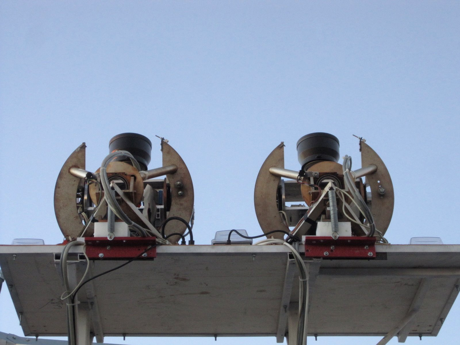 ASAS-North telescopes at the Haleakala volcano on Maui, HI. Left is the ASAS-N I and right is ASAS-N V .V and I designate the visible and infrared light filters those telescope observe with. ASAS-North telescopes are the instruments of the All Sky Automated Survey. Other two instruments - ASAS-South - are located at Las Campanas Observatory in Chile.